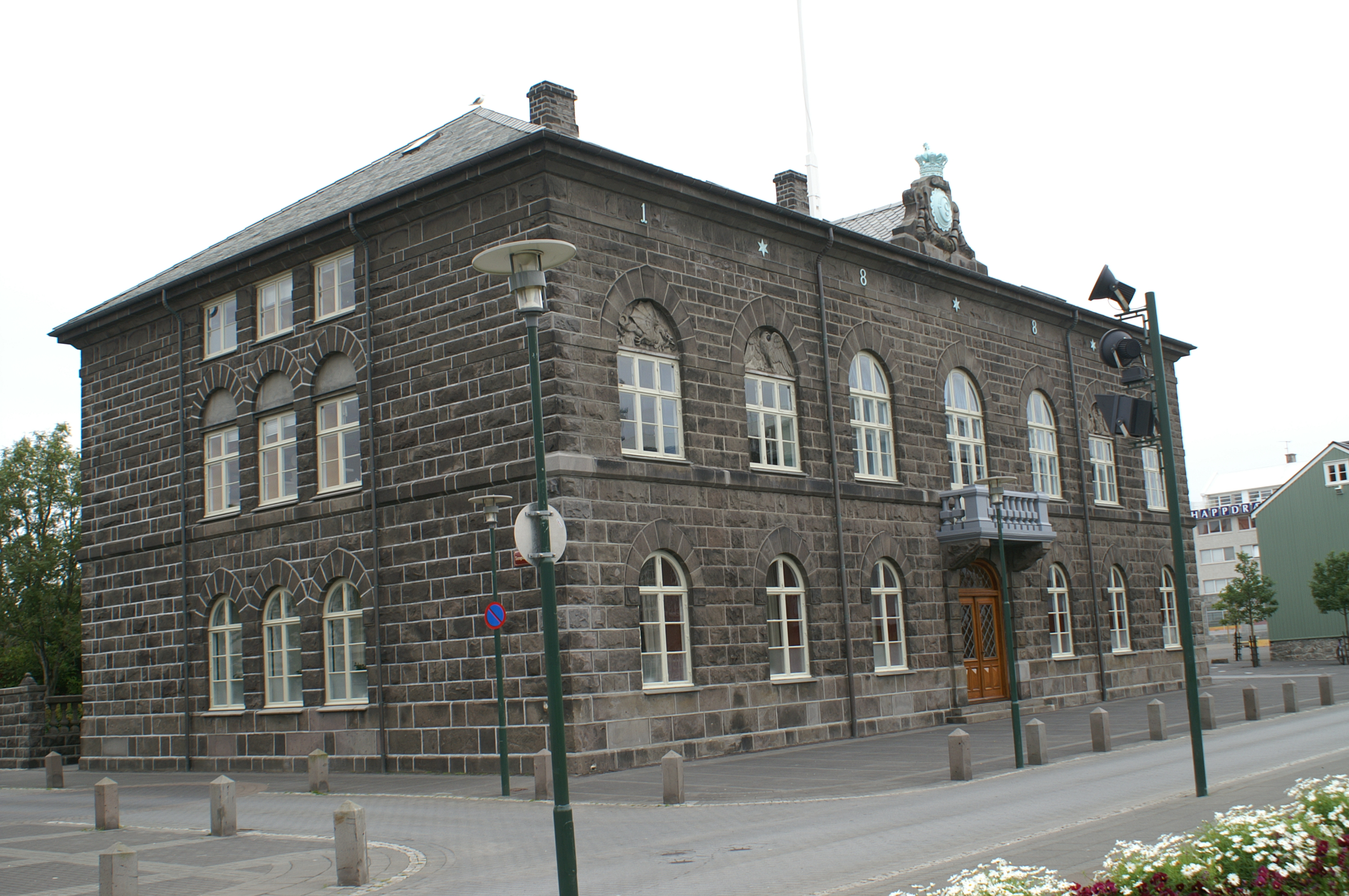 Alþingi, the national parliament of Iceland.